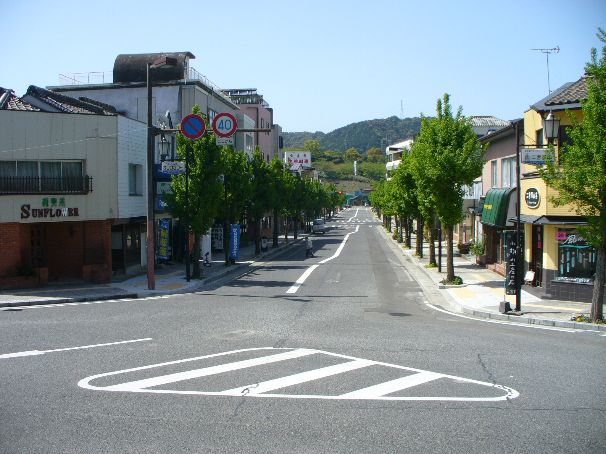 The Japanese town of Arita, as seen from the train station.